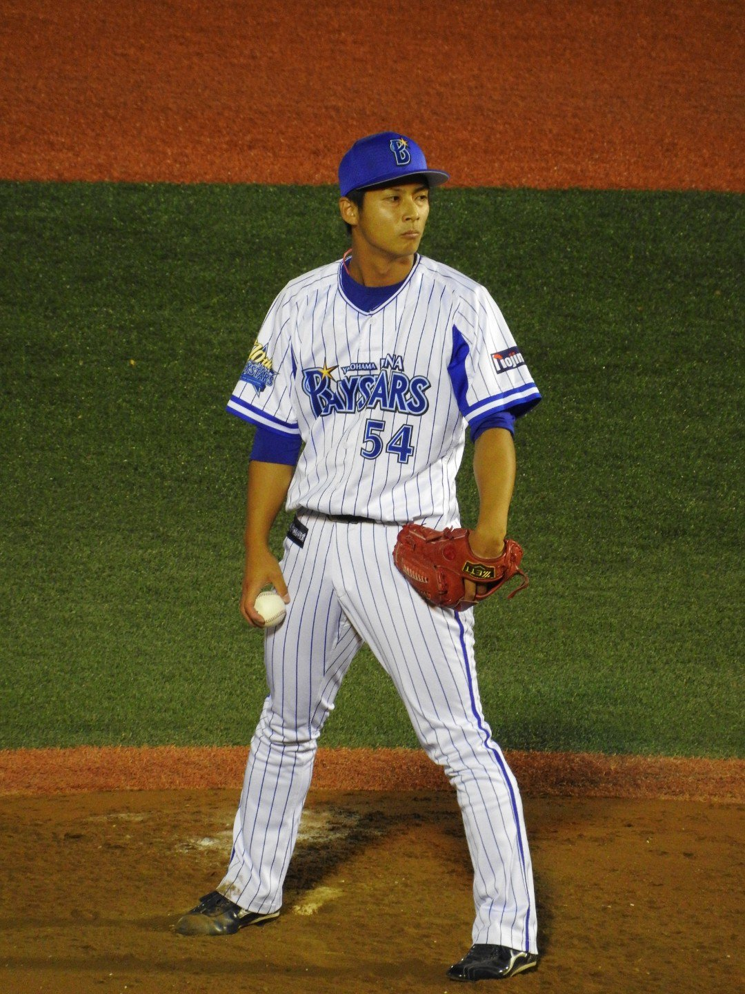 baseball player of baystars.